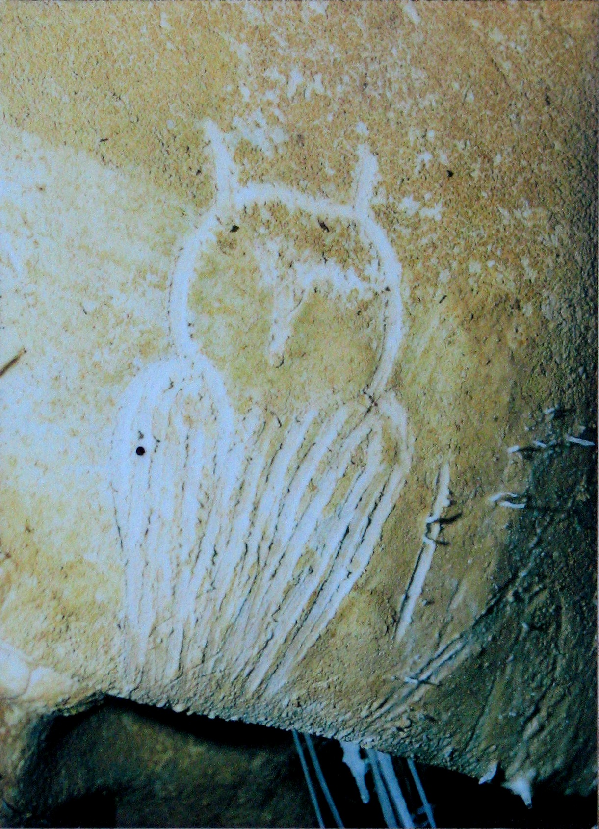 Engraving of an owl from the Chauvet cave. Photo of a replica of the engraving in the Brno museum Anthropos.